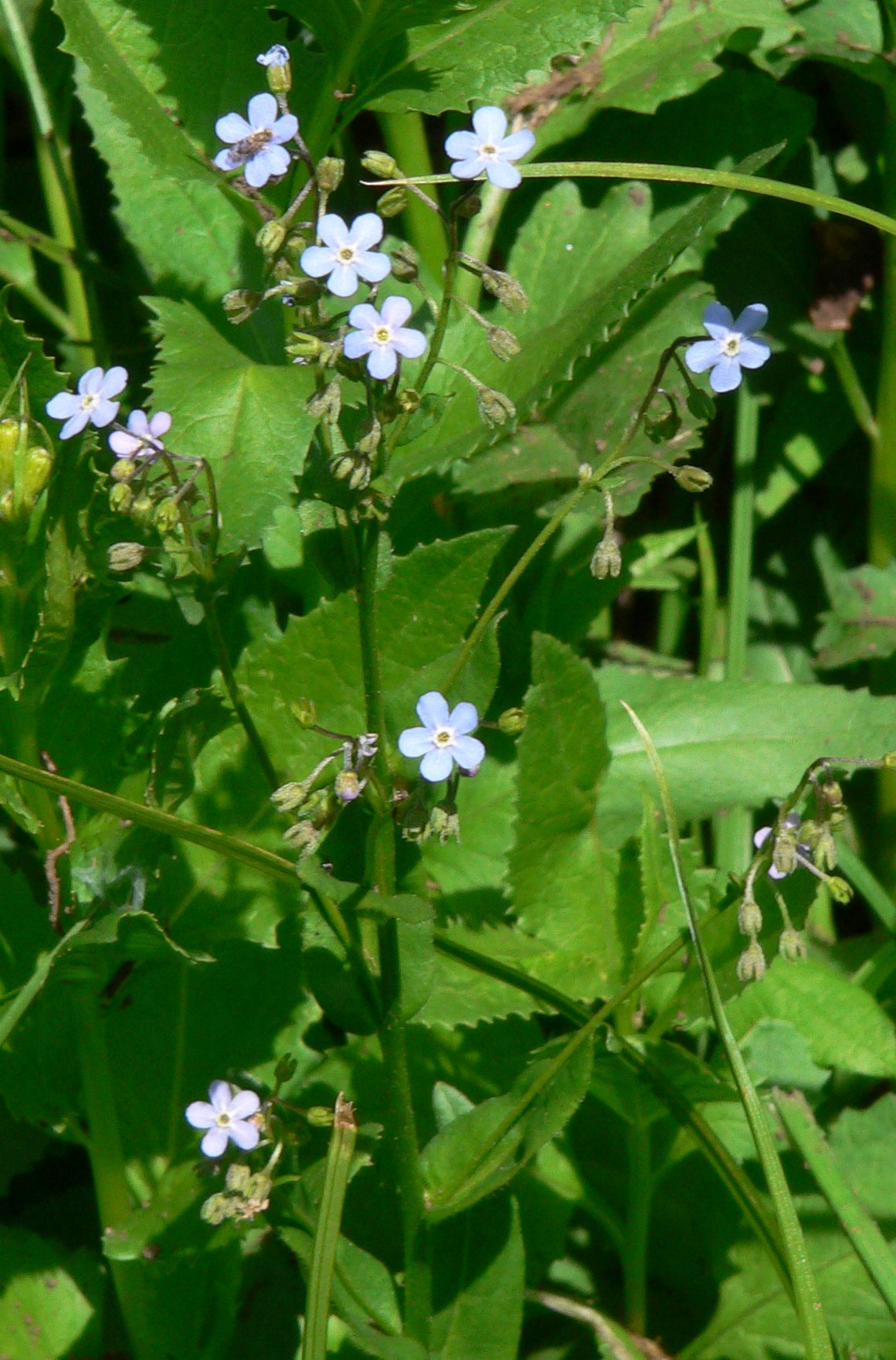 Hackelia micrantha, Castle Crest, Crater Lake National Park, Oregon, USA